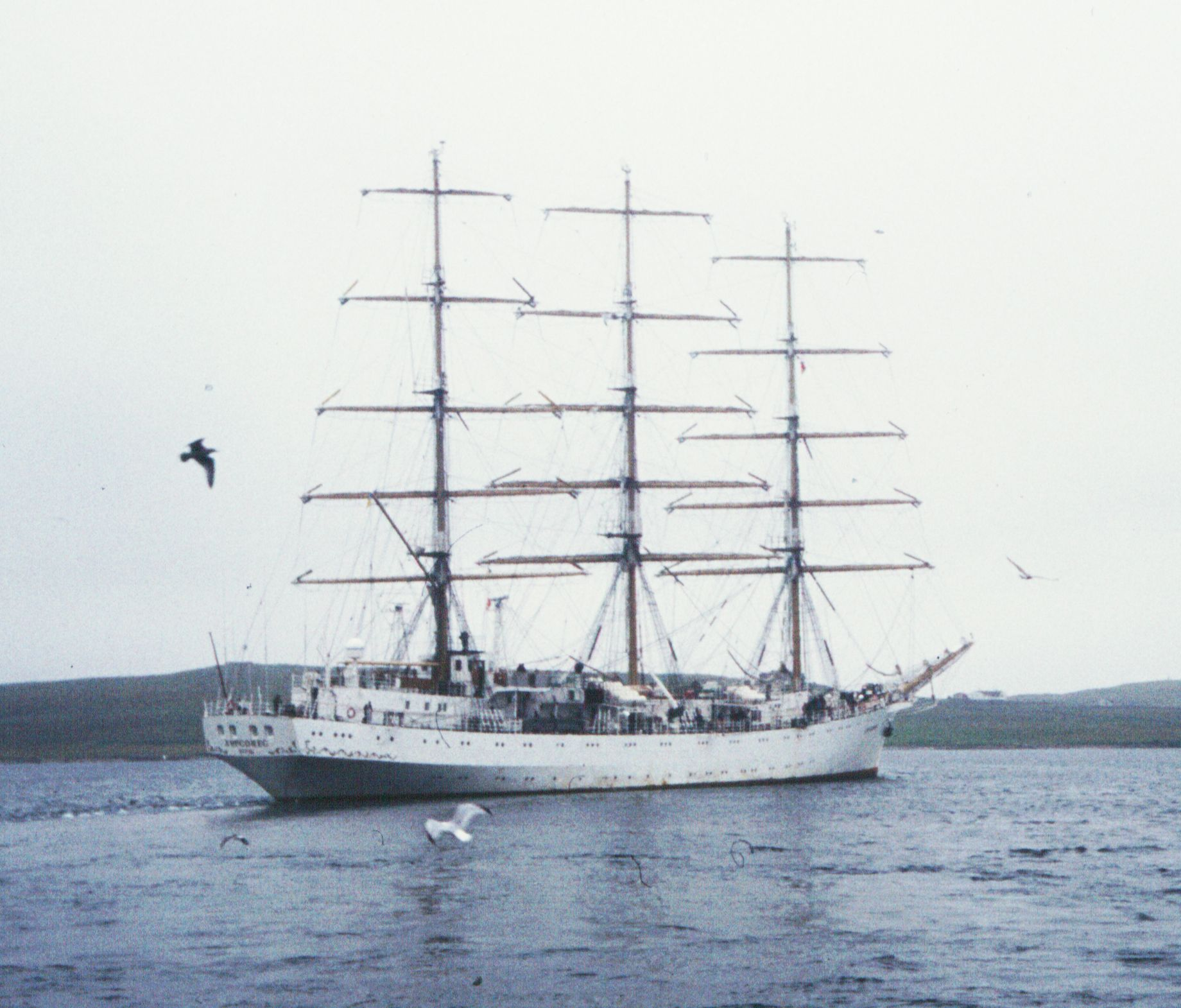 Sailing-vessel "Chersones" (Ukraina) near Lerwick, Shetland Islands